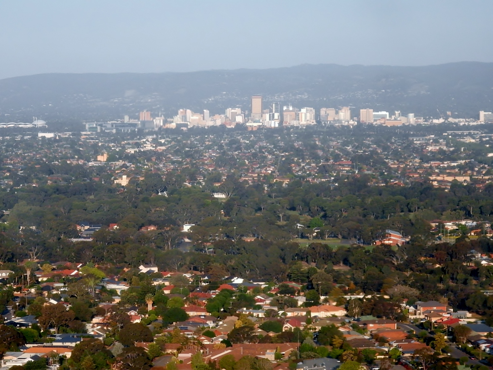 CBD in the Distance